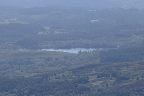 Photo of distant Llyn Goddionduon from Creigiau Gleision. Taken by me, released to Public Domain.